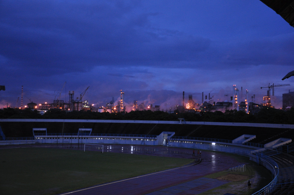 TATA STEEL view from JRD TATA Sports Complex